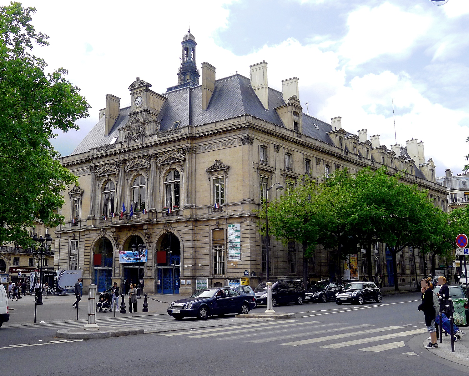 Town hall 11th. - Paris